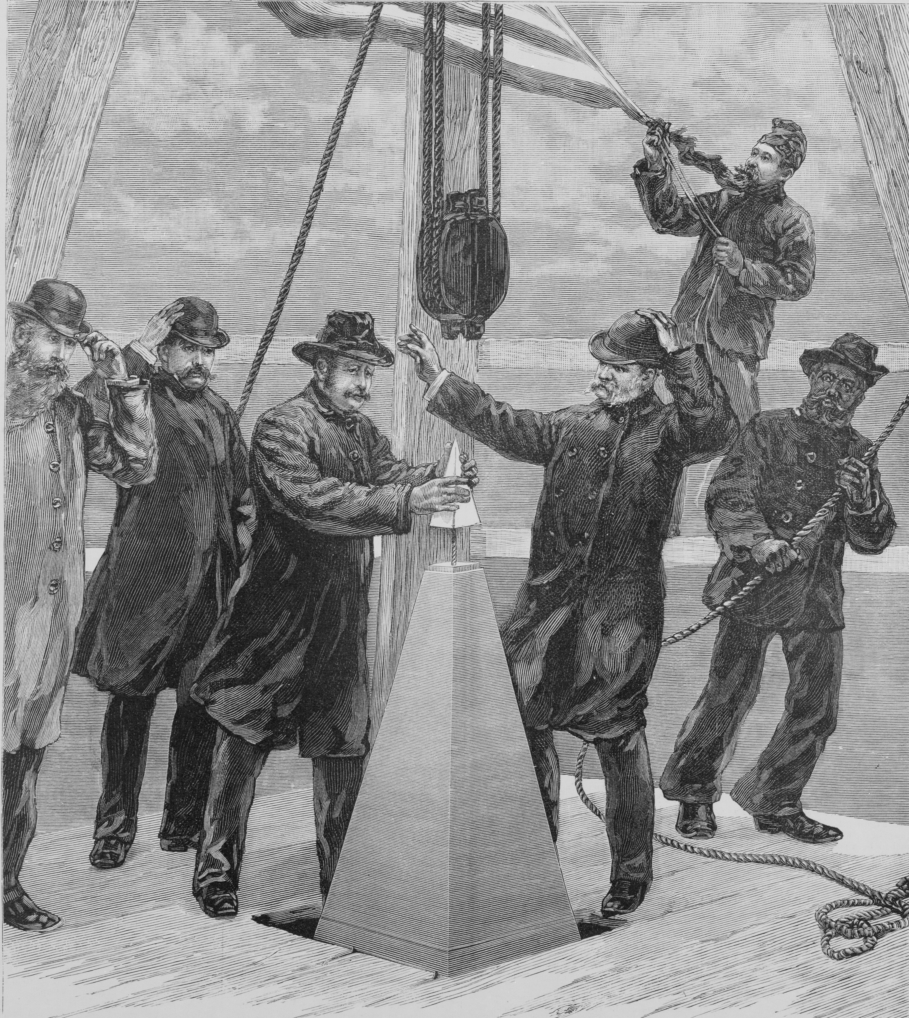 P. H. McLaughlin setting the capstone (aluminum apex) on the Washington Monument. Colonel Thomas Lincoln Casey has his hands up. An illustration from Harper's Weekly, December 20, 1884, page 839. Accompanying article on pages 844-5.